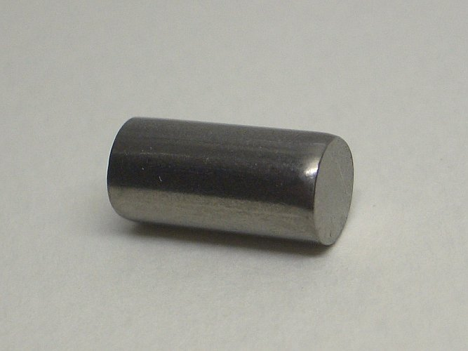 A niobium cylinder